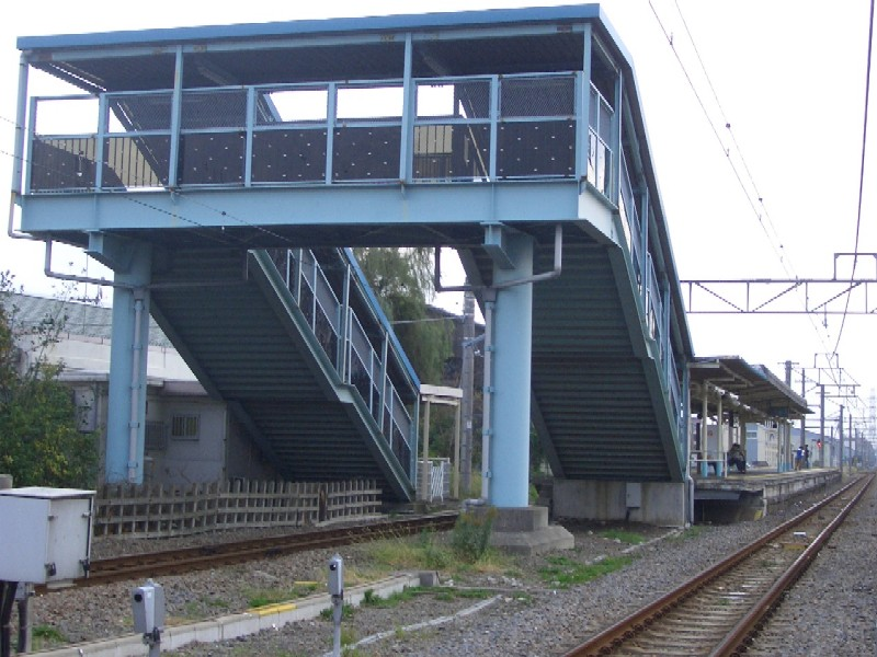 Shake Station on JR Sagami Line, Samukawa, Kanagawa facing in direction of Hashimoto Station 社家駅